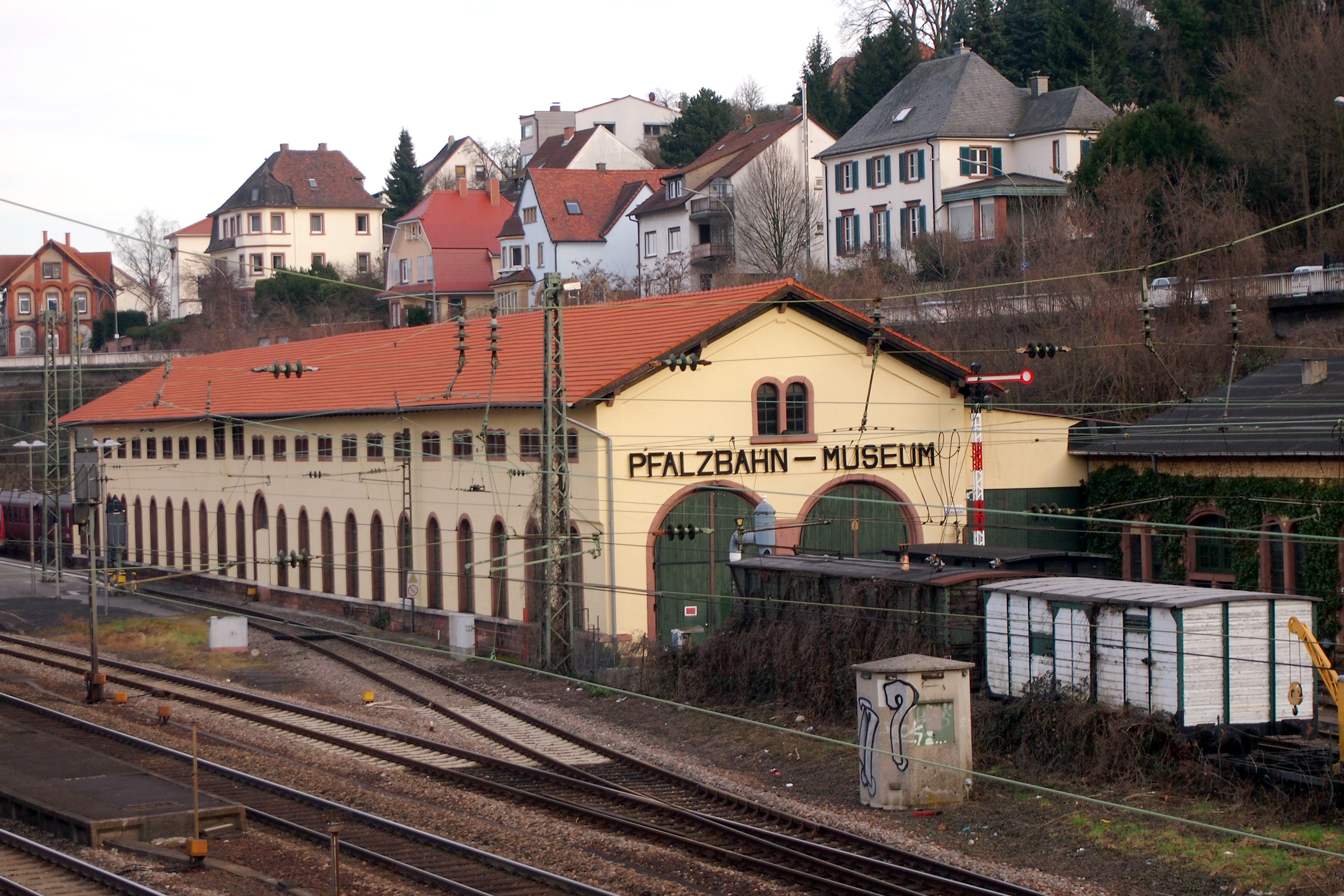 Neustadt an der Weinstraße, Hauptbahnhof, railway station